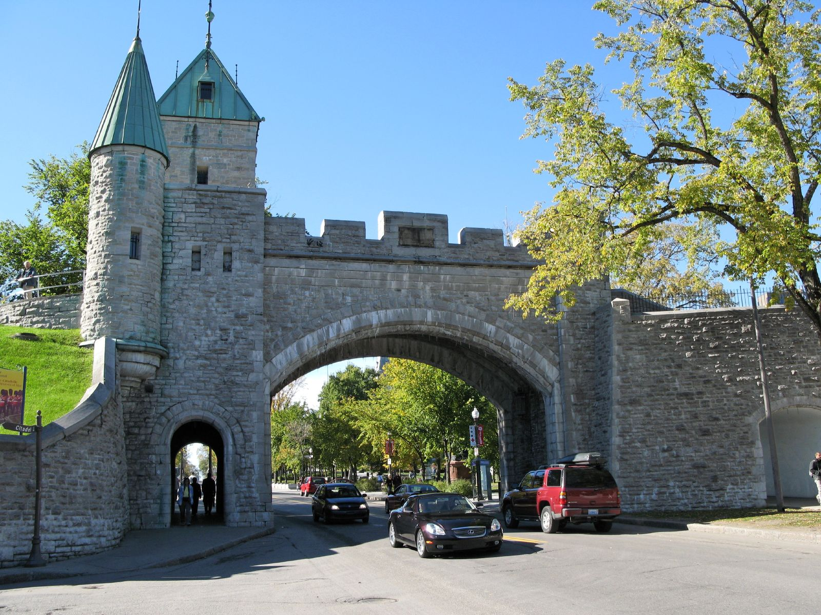 Quebec City - Ramparts of Quebec City. The Saint-Louis gate, seen from inside.